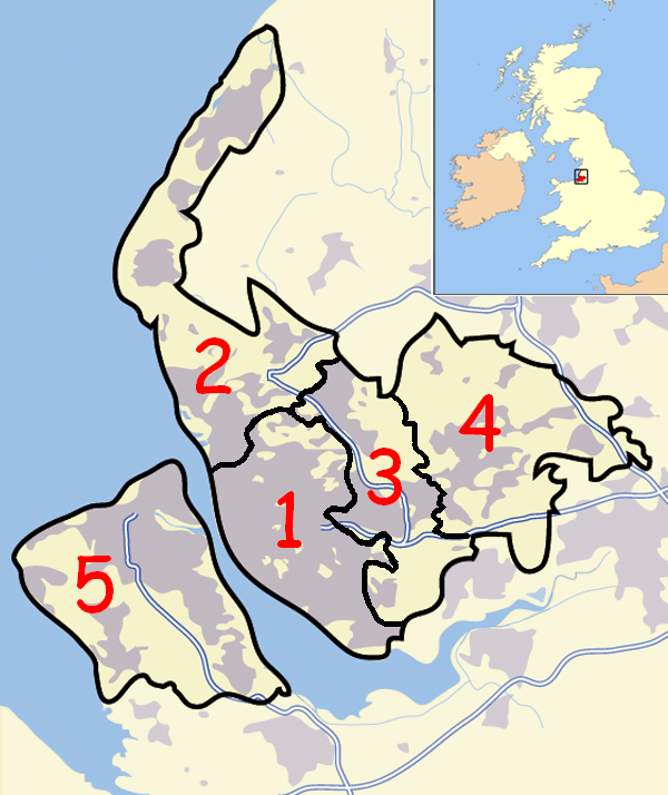 Merseyside's outline map